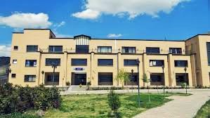 Faculty of engineering of Toyserkan